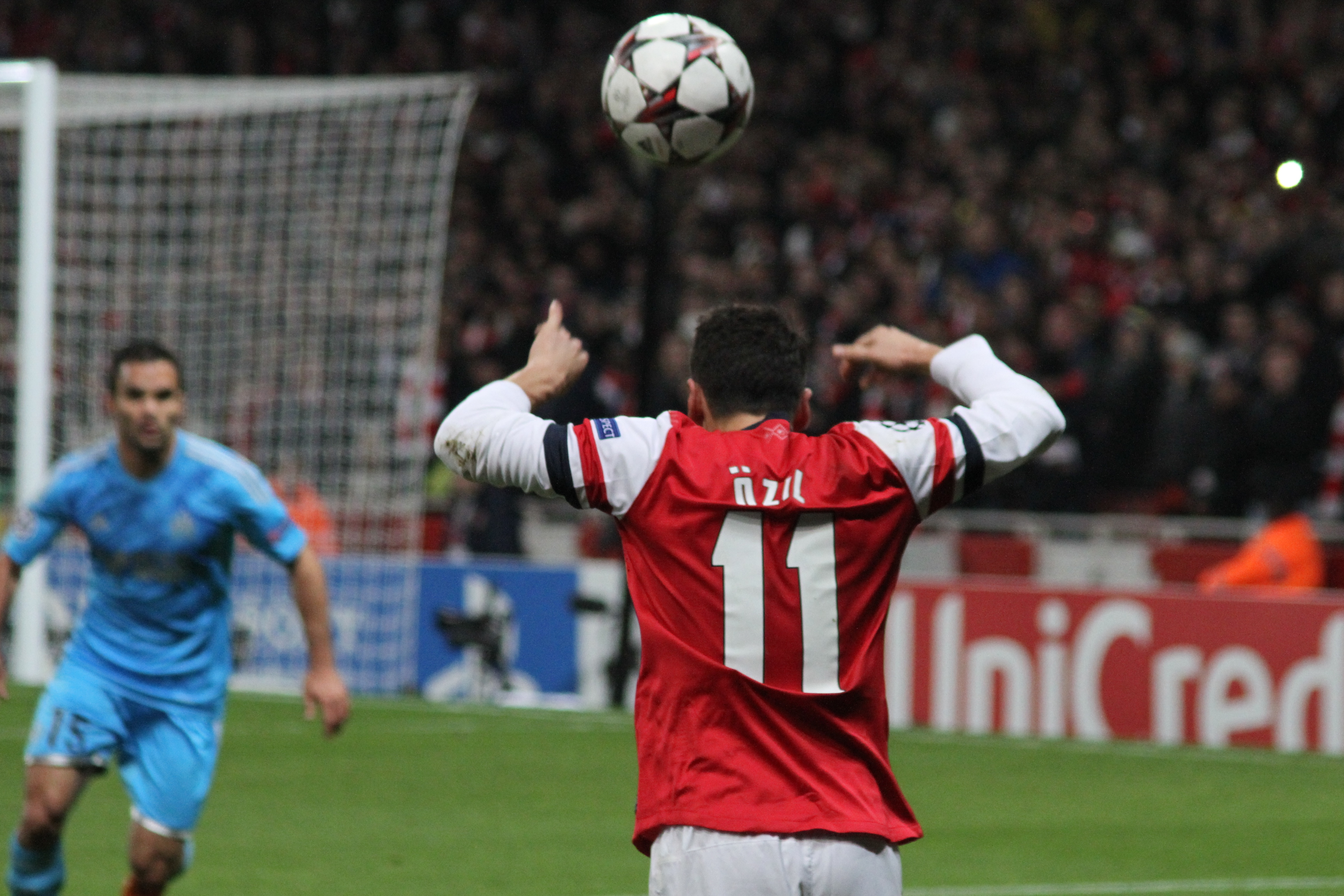 Özil throw on